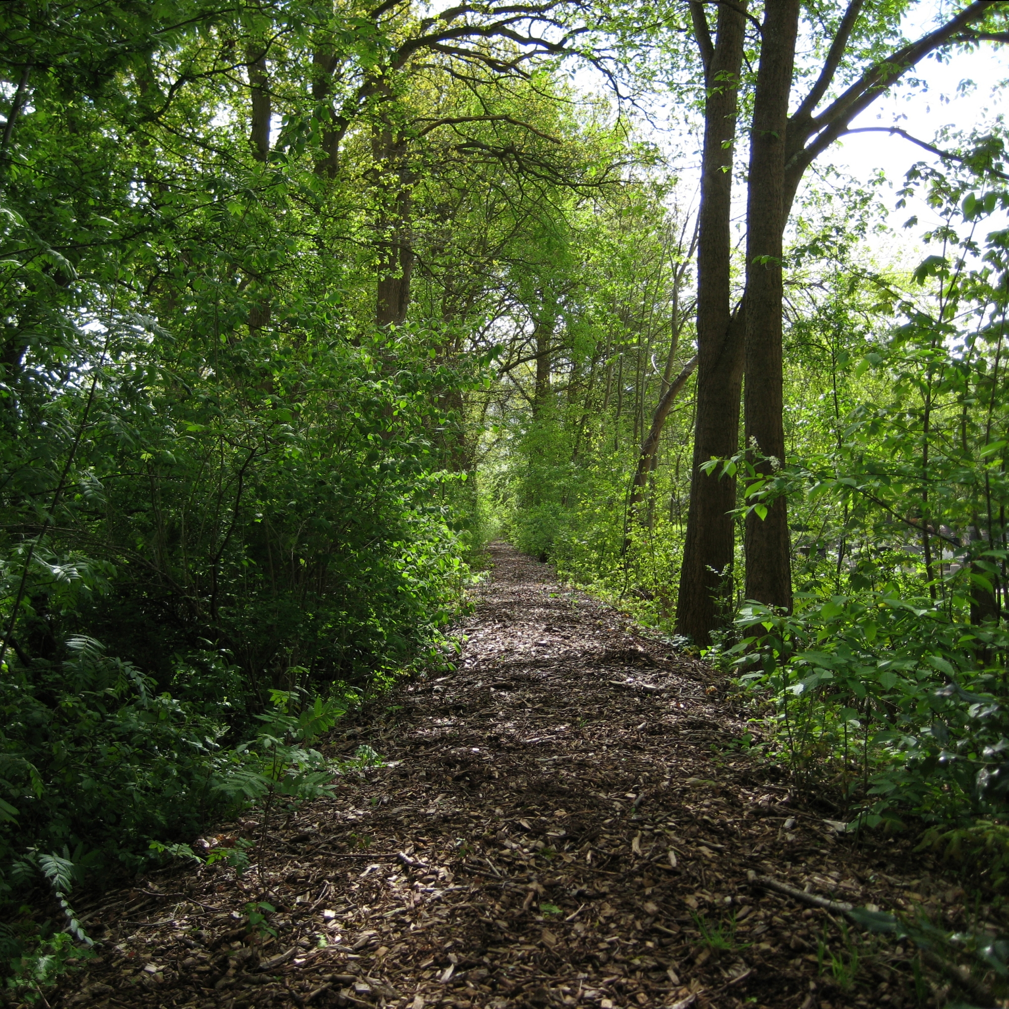 Remains of the Helperlinie, a former outwork south of the Dutch city of Groningen.